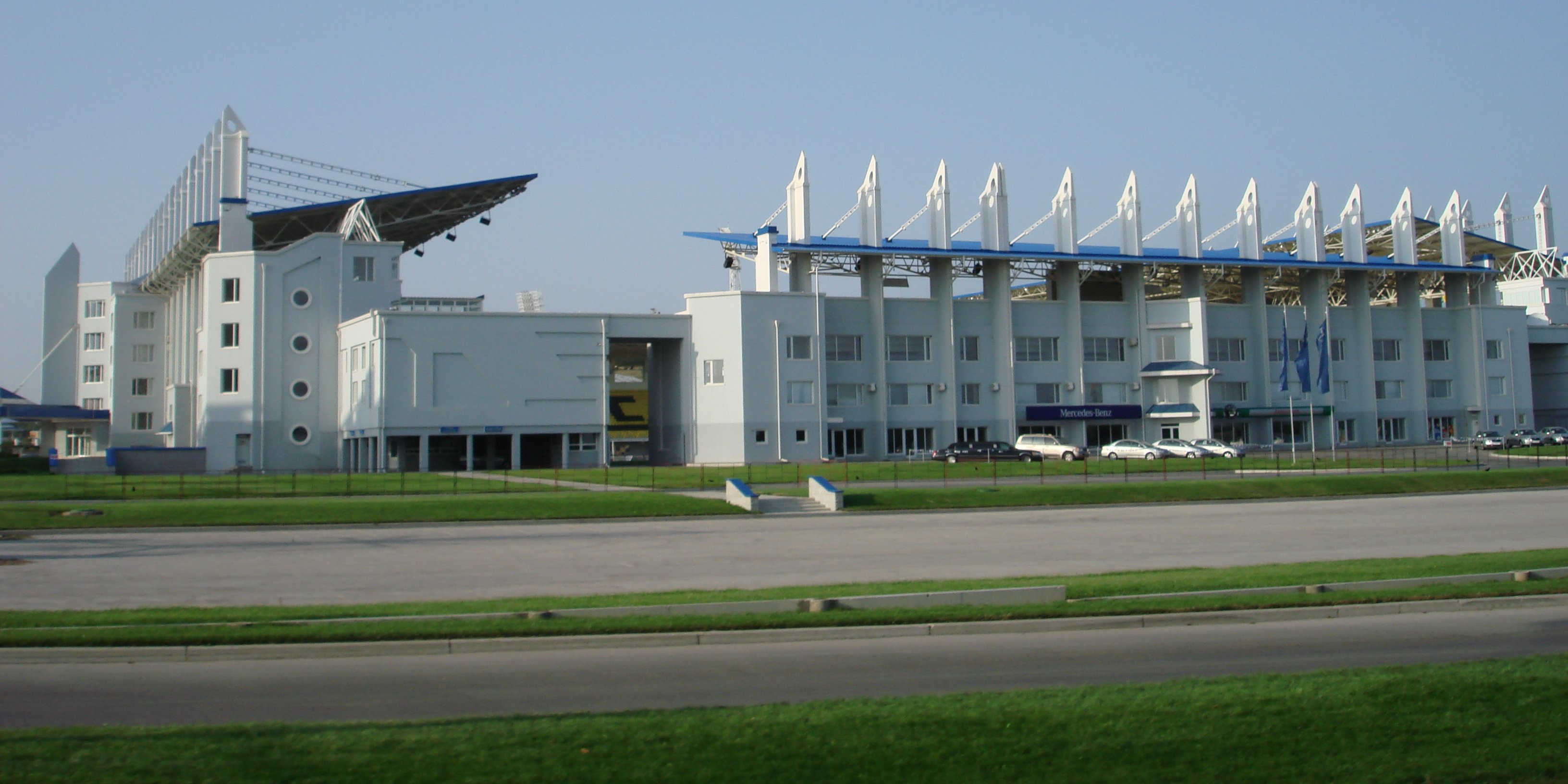 Sheriff (sport complex)